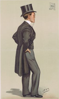 Caricature of Cyril Maude. Caption read "Squirrel".